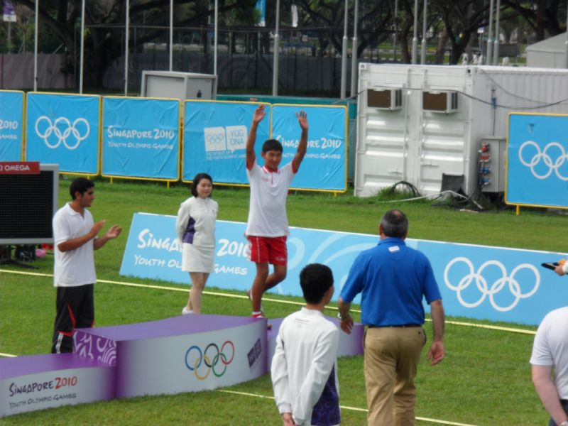 Russian archer Bolot Tsybzhitov on the victory podium after winning the bronze medal in the Junior Men's Individual archery competition at the 2010 Summer Youth Olympics taking place at Kallang Field, Singapore.